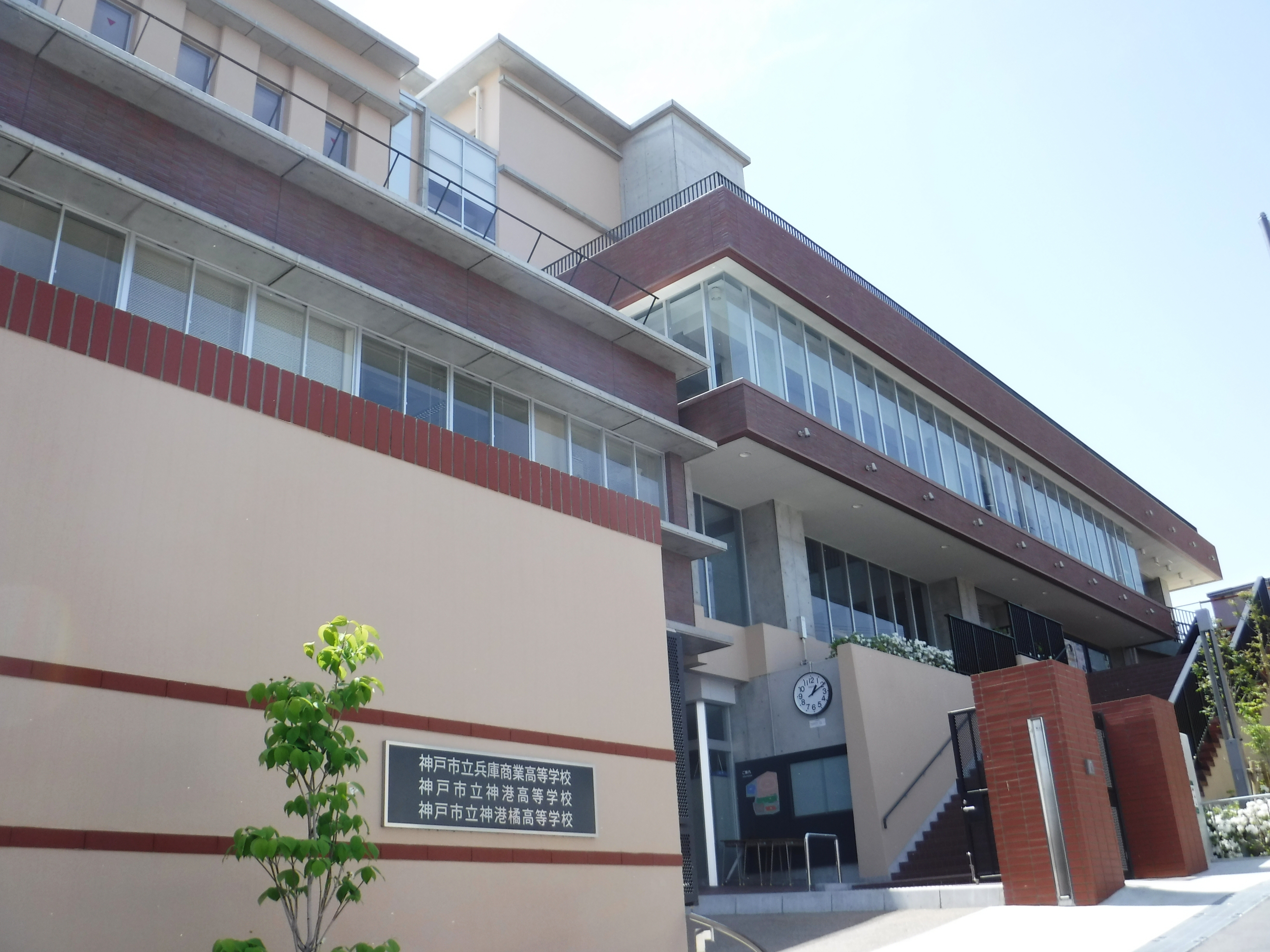 Main entrance of Kobe Municipal Shinko Tachibana High School in Hyogo-ku, Kobe, Hyogo, Japan.